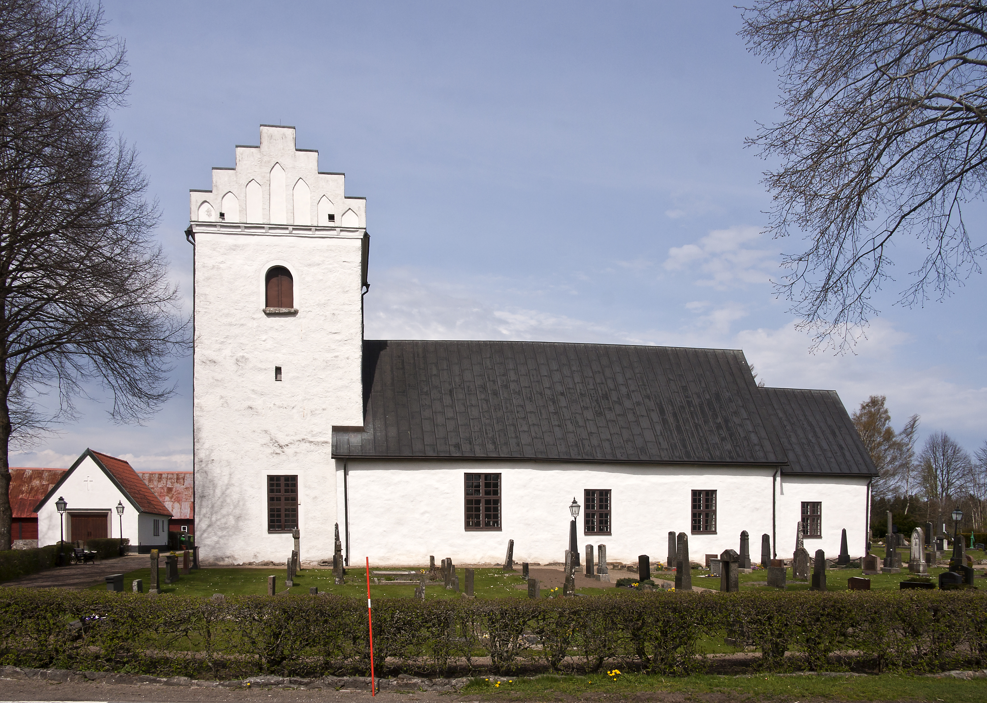 Djurröd Church, Träne-Djurröd Parish, Diocese of Lund, Church of Sweden.